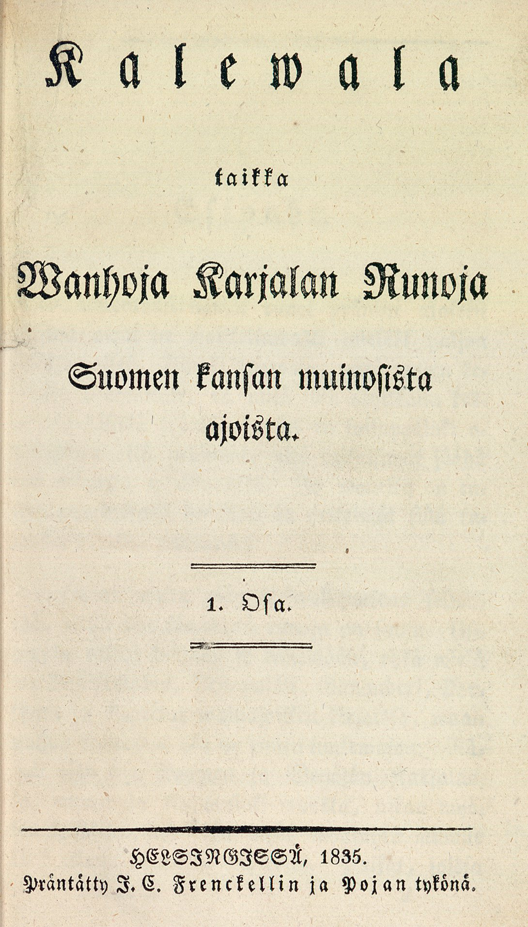 Inside front title page of The "Old" Kalevala, Finnish national epos, collection of old Finnish poems, by Elias Lönnrot. First edition; volume 1, 1835. Page text reads: Kalewala or the old Karelian poems about the ancient times of the Finnish people 1st Part In Helsinki 1835 Printed JC Frenckellin Son's company